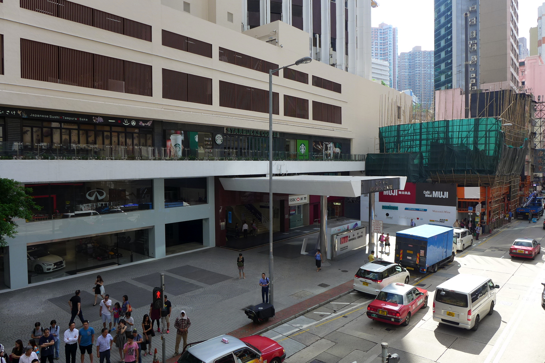 Hopewell Centre Entrance view